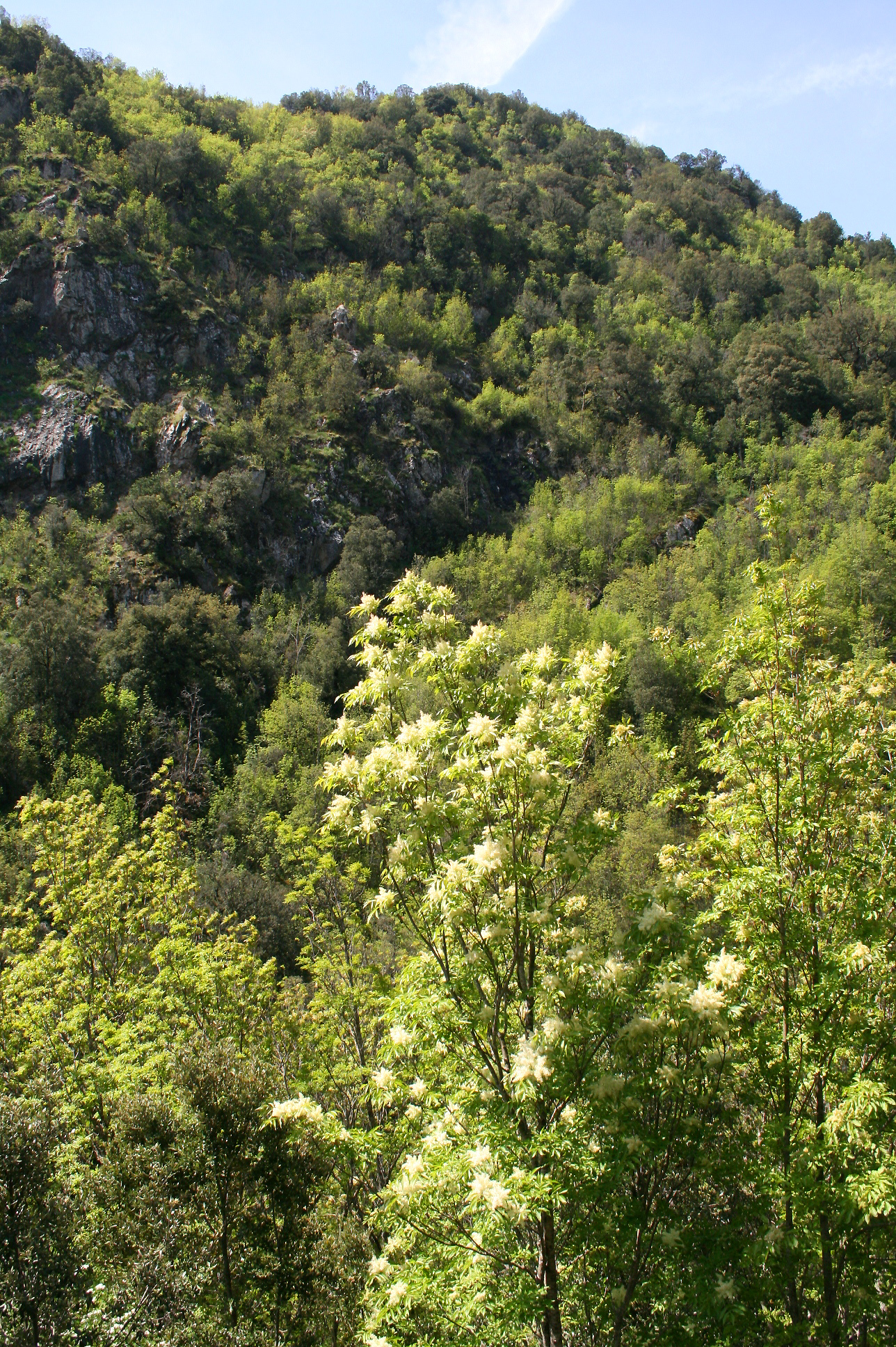 Flowering Ash (Fraxinus ornus) - Habit: Prunelli ravine ( Corse-du-Sud) - France. Corsu: Frassu à fiore (Fraxinus ornus) - Borga da Prunelli ( Corsica sutanna) - Francia. Walon: Frin.ne a fleûrs (Fraxinus ornus) - Place: Gwadjes do Prunelli (Corse-do-Sud) - France.